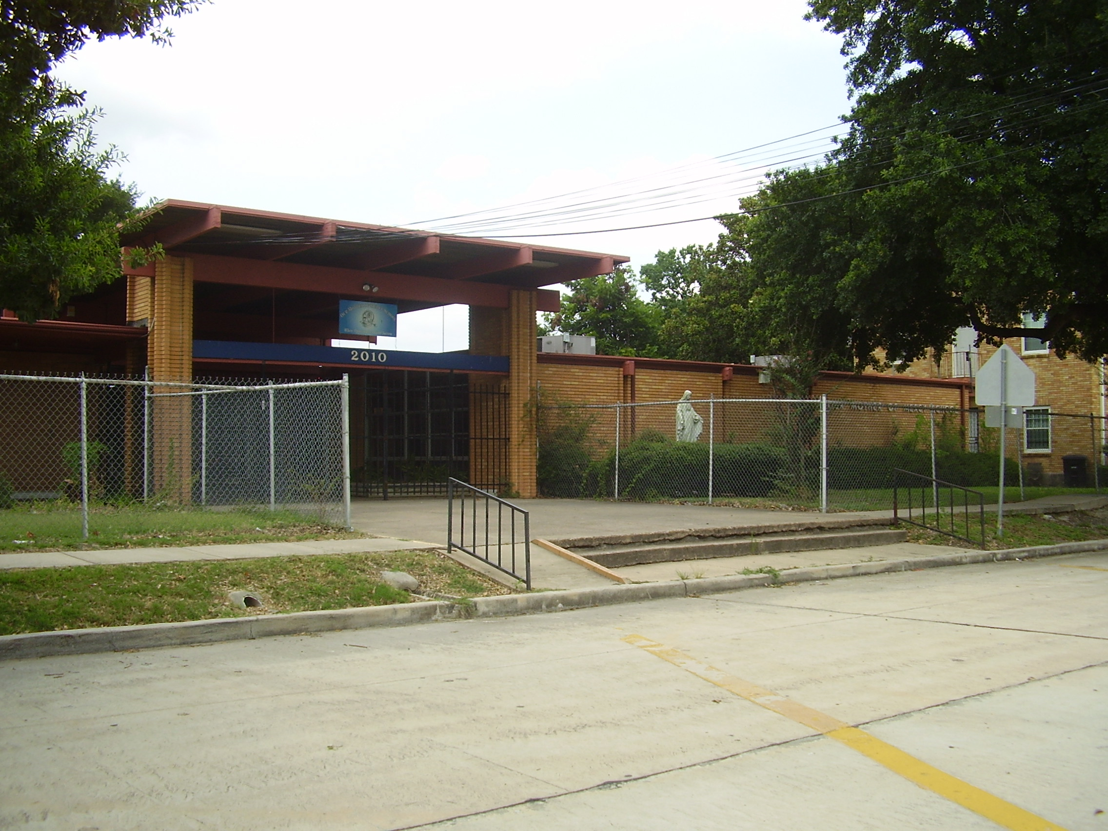 Our Mother of Mercy School, affiliated with Our Mother of Mercy Catholic Church